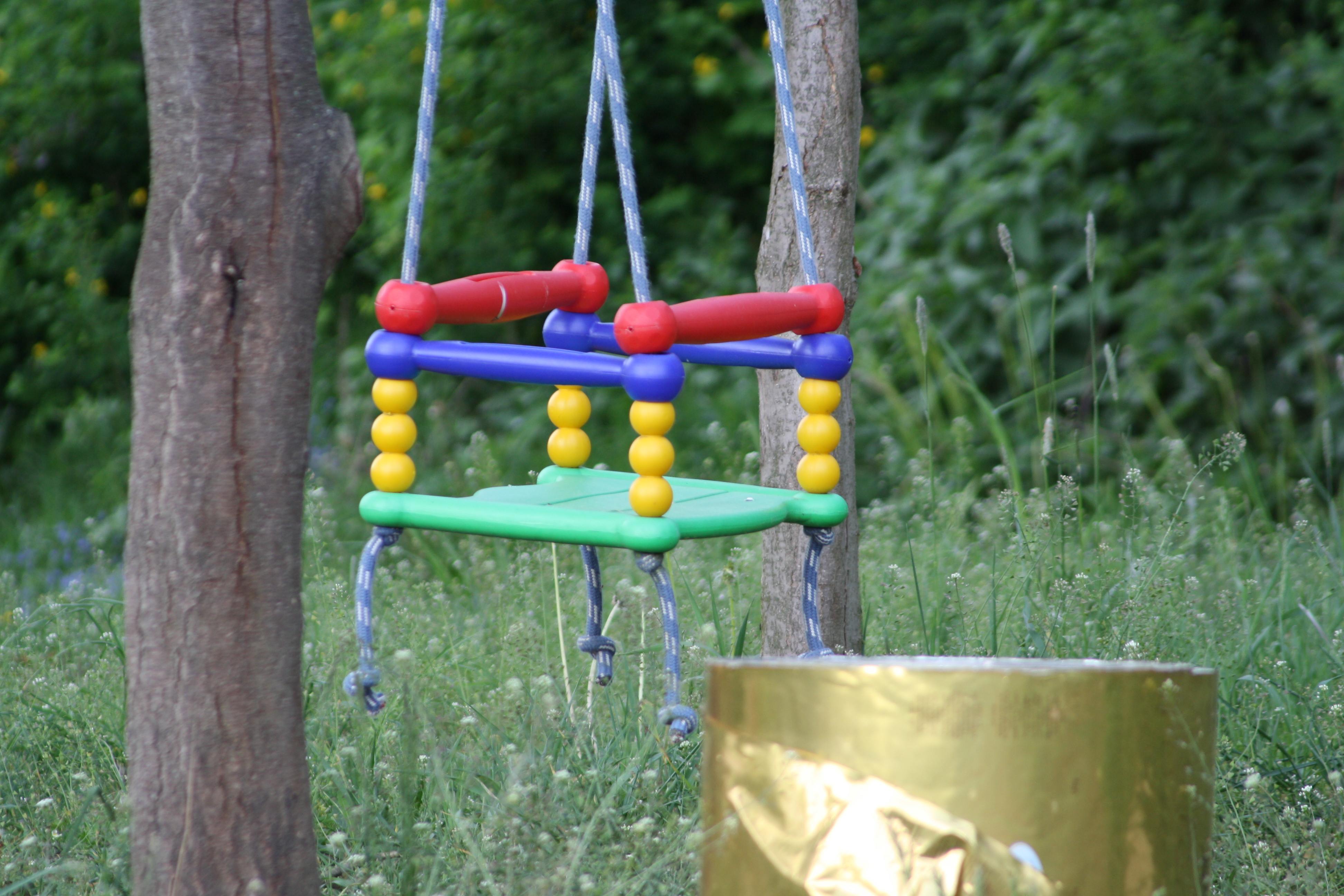 Children swing in cottage area in Hostákov, Czech Republic.